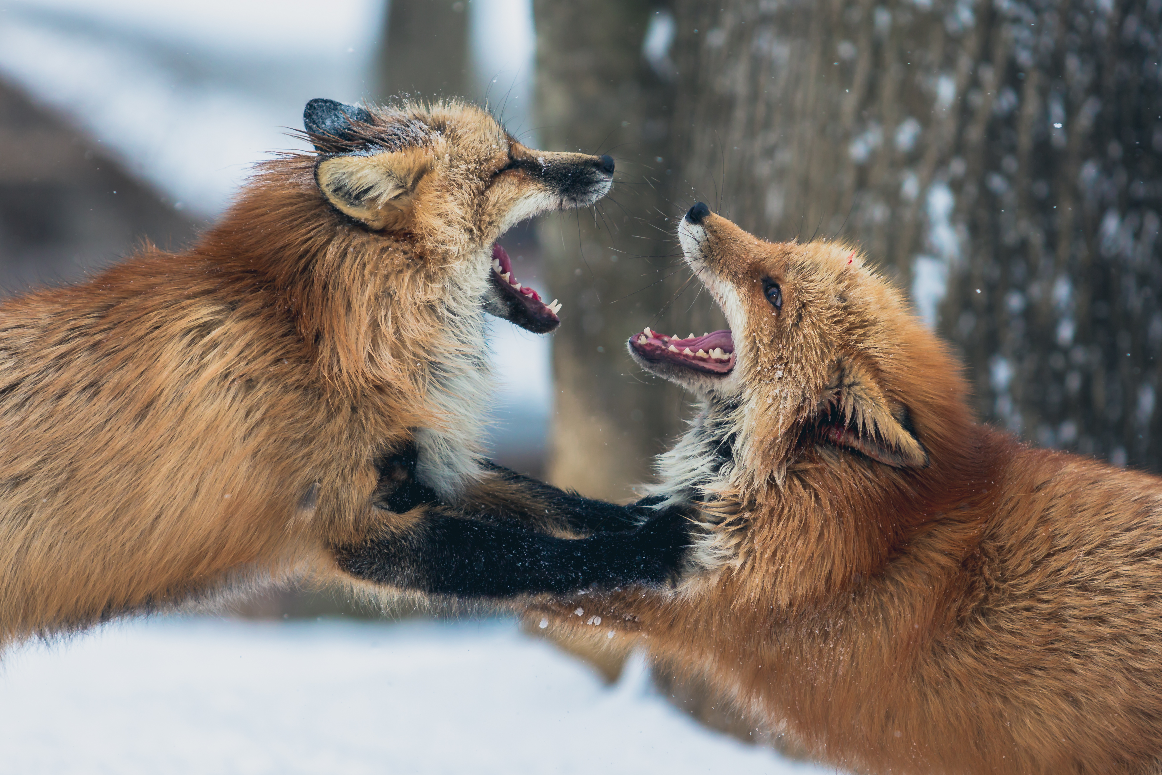 Zao Fox Village, Shiroishi-shi, Japan